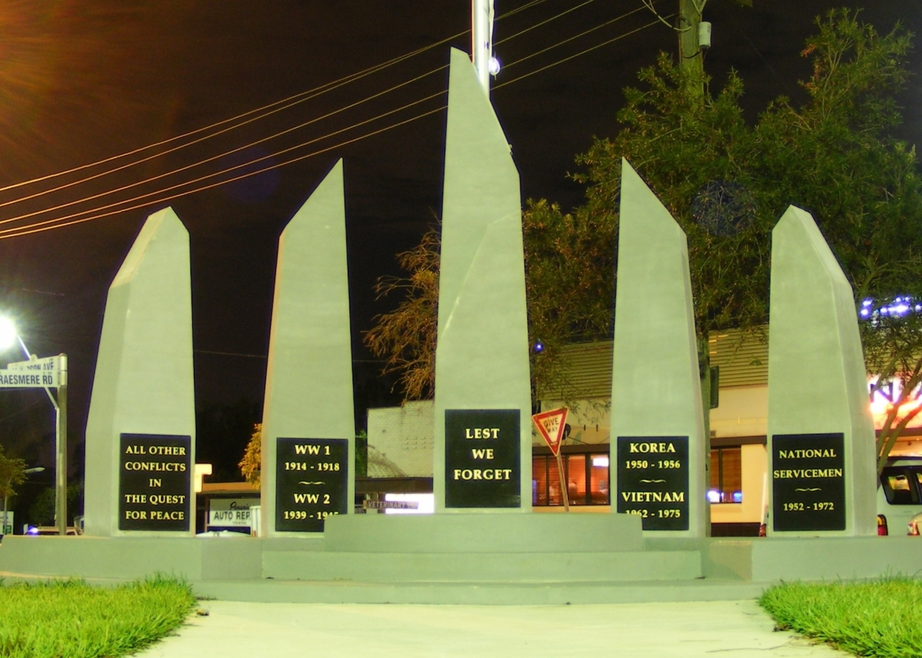 Pania, City of Bankstown